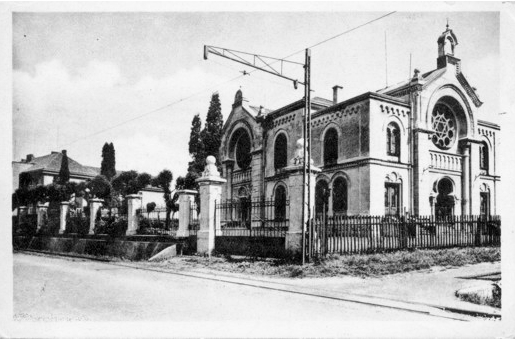 Orlova synagogue (Orlau) in Czechoslovakia, built in 1905 by Jakob Gartner (1861-1921) and destroyed by the Nazis in 1939.